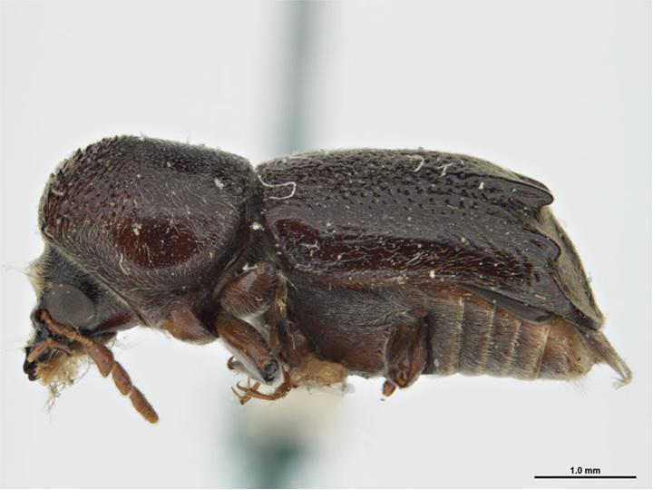 Dendrobiella sericans. Location: USA, Col. River, California